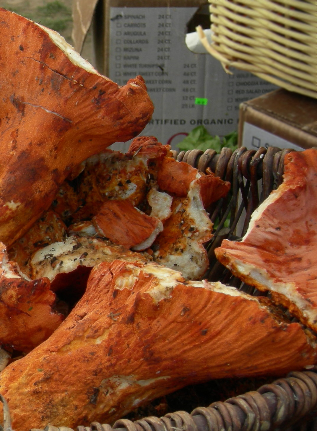 Lobster mushrooms (Hypomyces lactifluorum), Seattle Tilth Harvest Festival, Meridian Park (adjacent to the Good Shepherd Center), Wallingford, Seattle, Washington. Technically, a Lobster mushroom is not a mushroom: it is a parasitic mold that grows on mushrooms, turning them a reddish orange color.